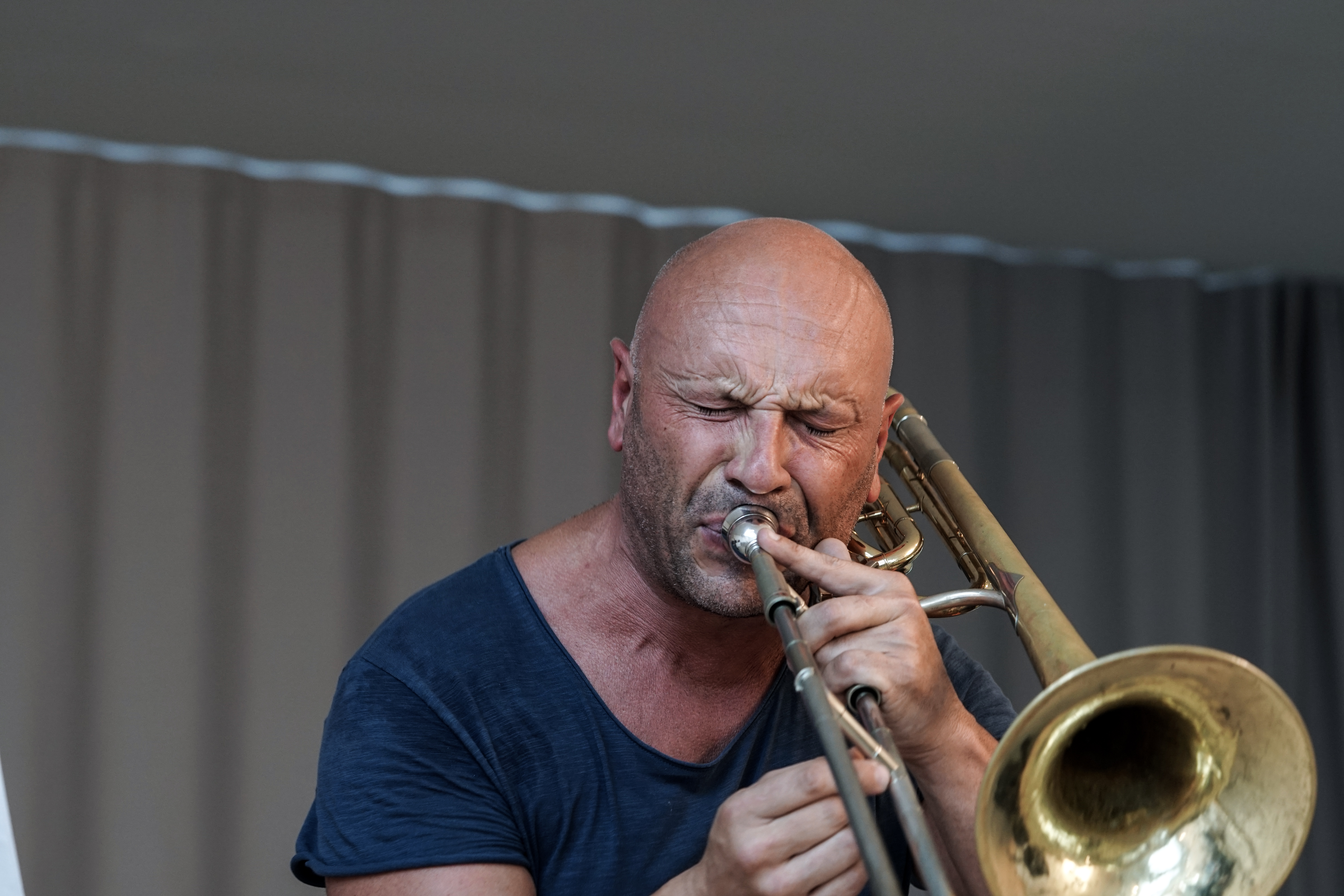 Geoffroy de Masure Aarhus Jazz Festival (Denmark 2017)